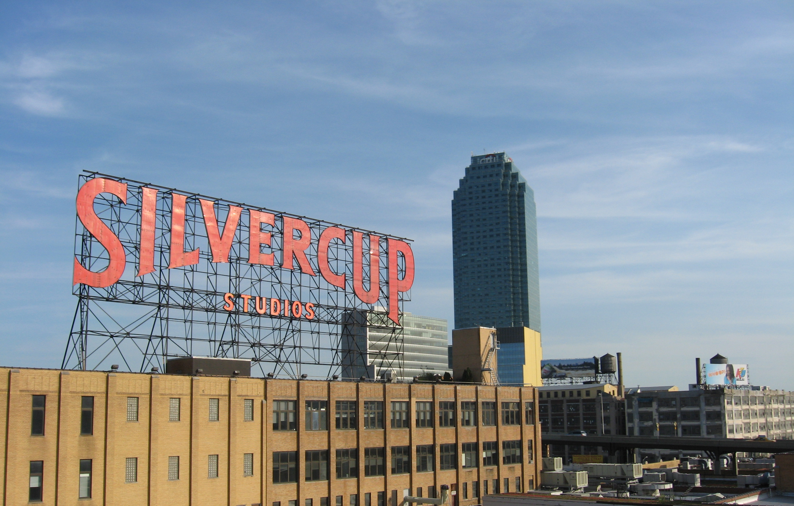 Looking southeast at studio and One Court Square bank building on a sunny afternoon.